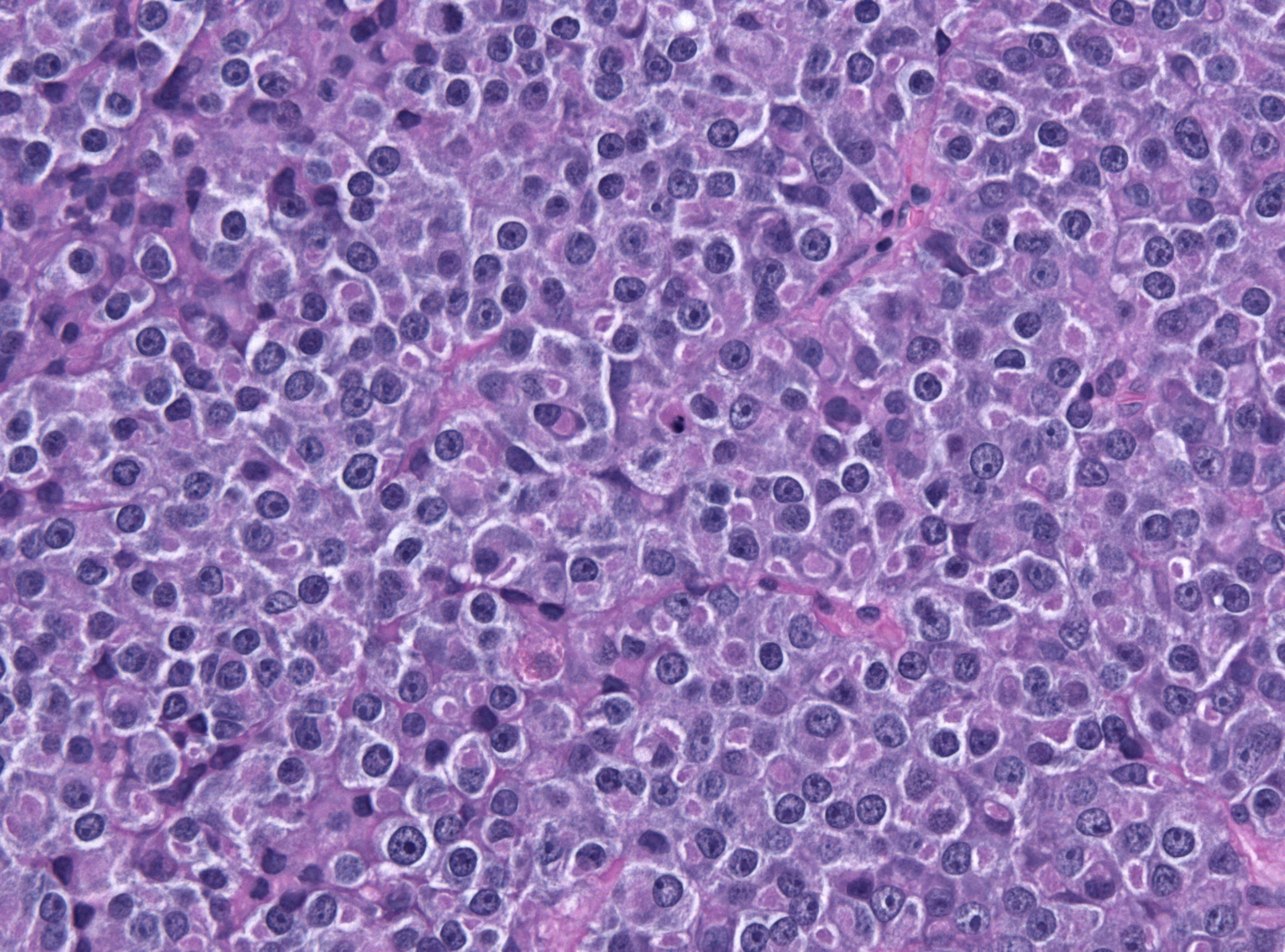 Histology biopsy specimen of a prolactin producing pituitary adenoma